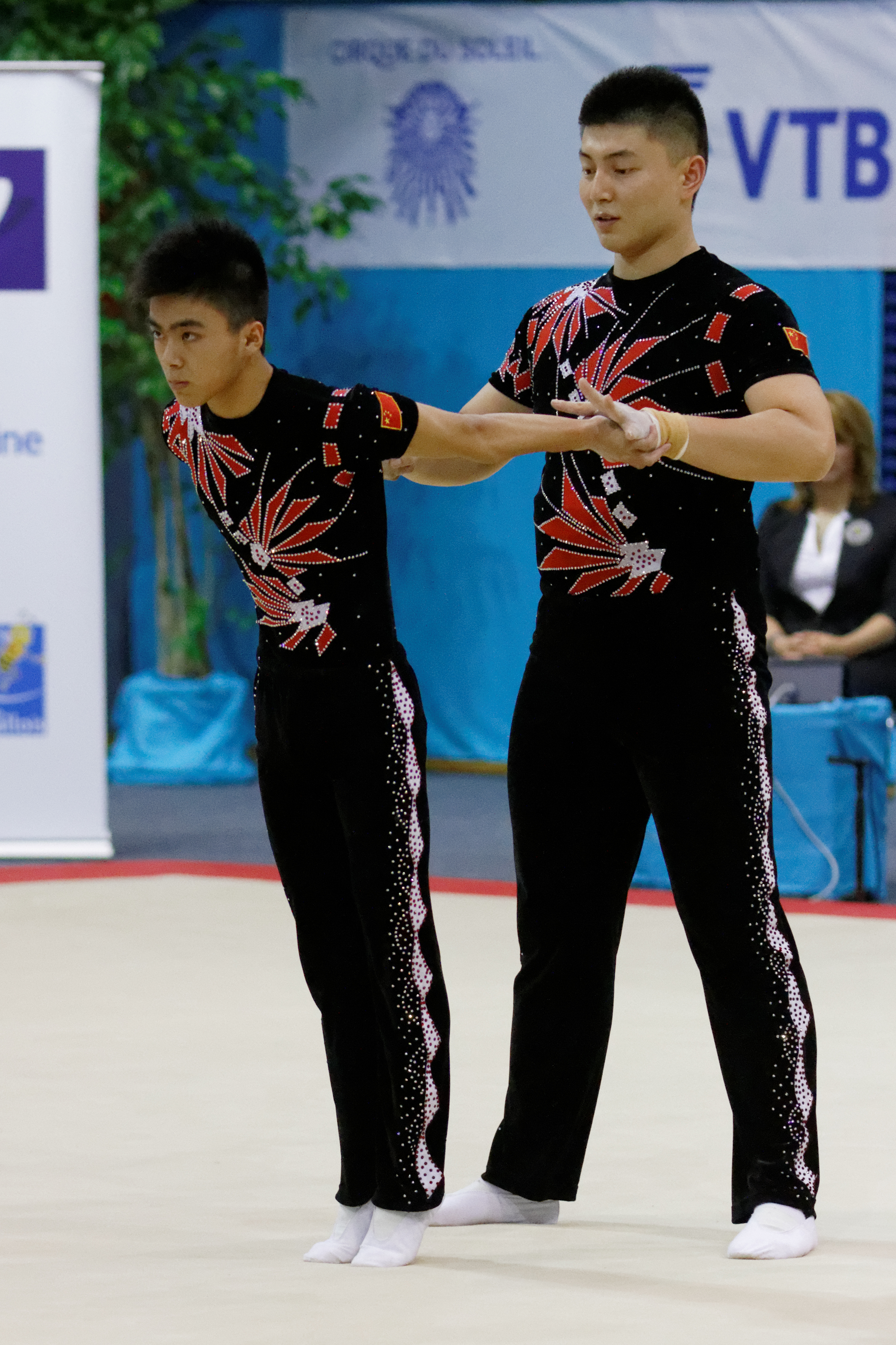 2014 Acrobatic Gymnastics World Championships, 10th-12 July, Levallois-Perret, France. Finals: men's pair. China.